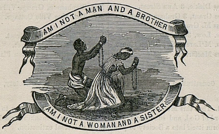 From the cover of the 1866 annual report of the Edinburgh Ladies Emancipation Society